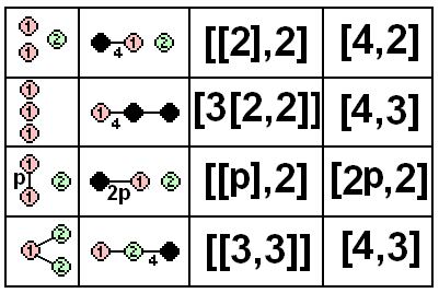 Coxeter-Dynkin diagram table